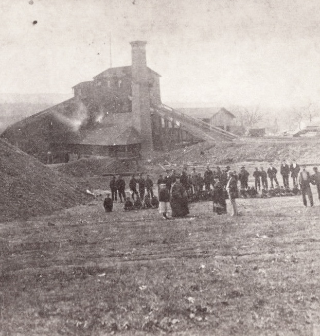 A photograph of the Boston Colliery, Plymouth, PA taken by E. W. Beckwith about 1875. The image is cropped from a stereo view.